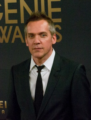 Director Jean-Marc Vallée from the film Café de Flore at the 32nd Genie Awards